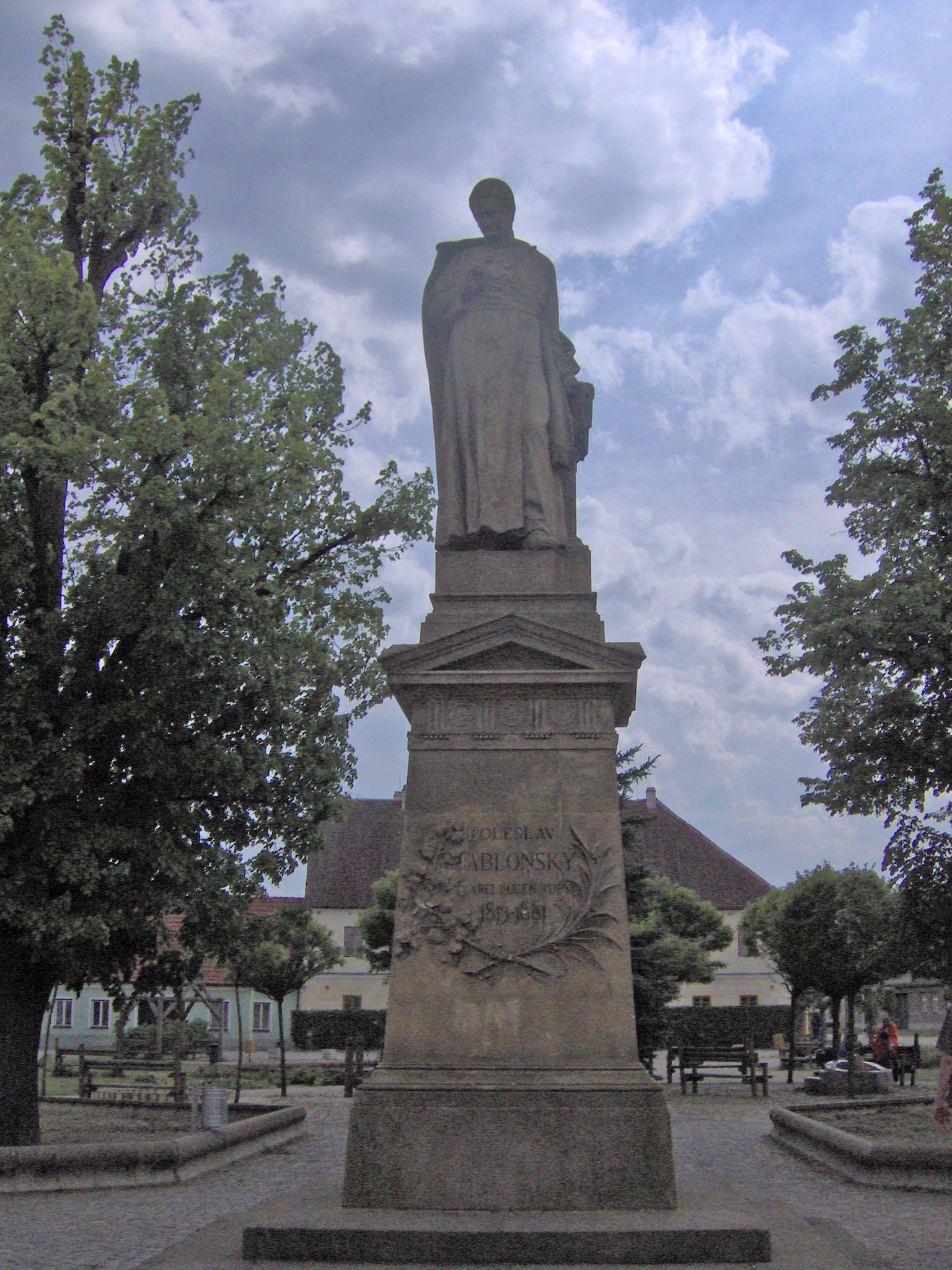 Statue of Boleslav Jablonský, Kardašova Řečice, South Bohemian Region, Czech Republic